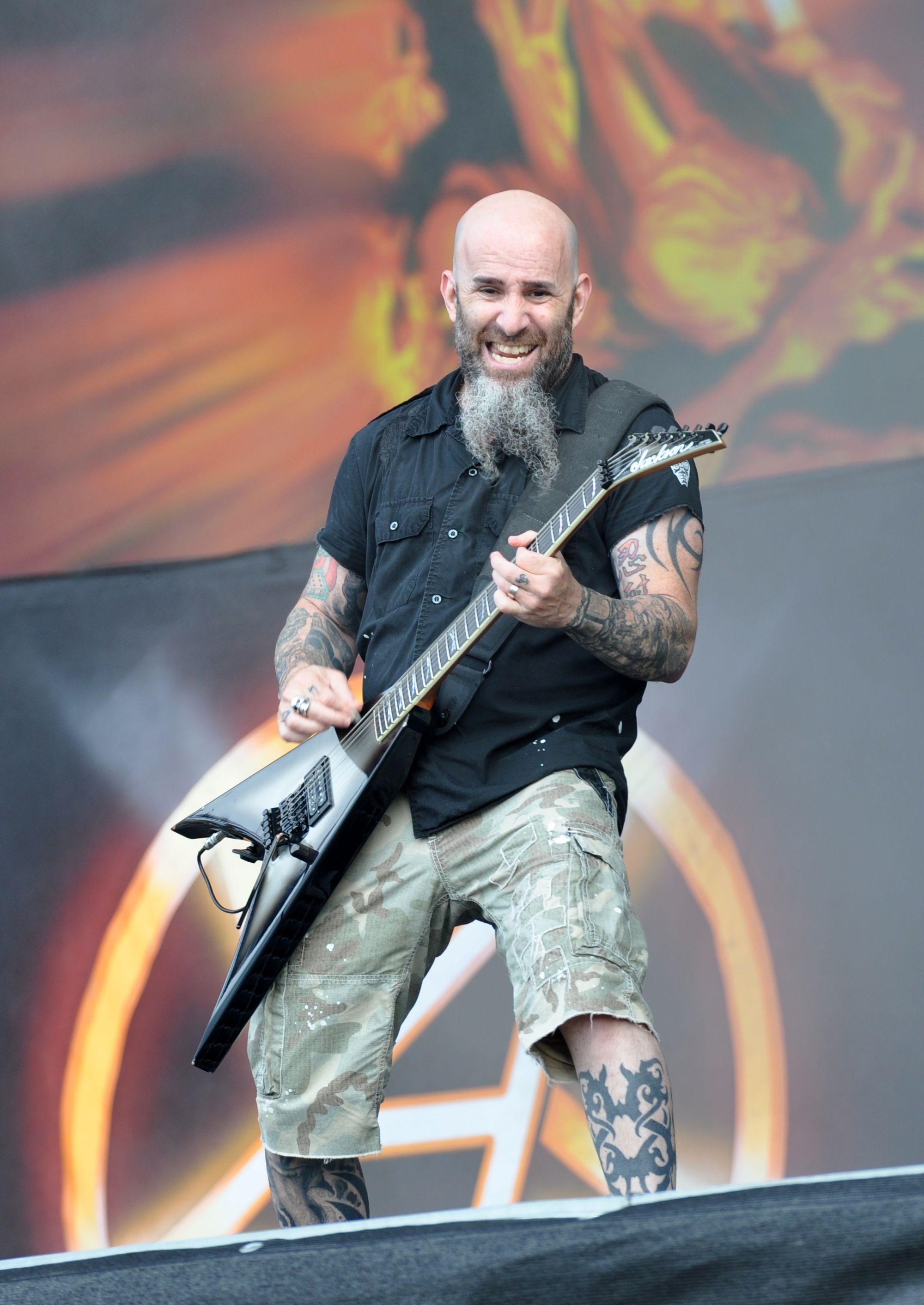 Scott Ian at Wacken Open Air 2013